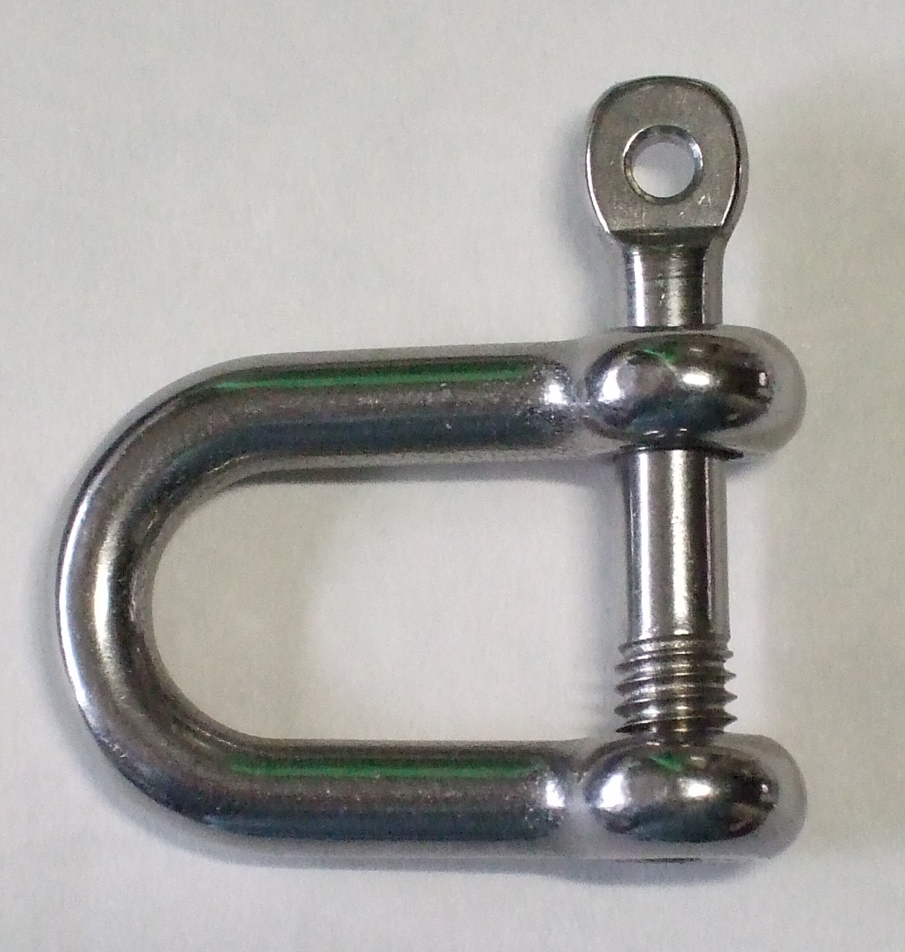 A shackle made of stainless steel.